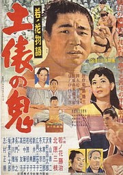 1956 Japanese movie poster for 1956 Japanese movie (若ノ花物語 土俵の鬼 Wakanohana monogatari dohyou no oni).